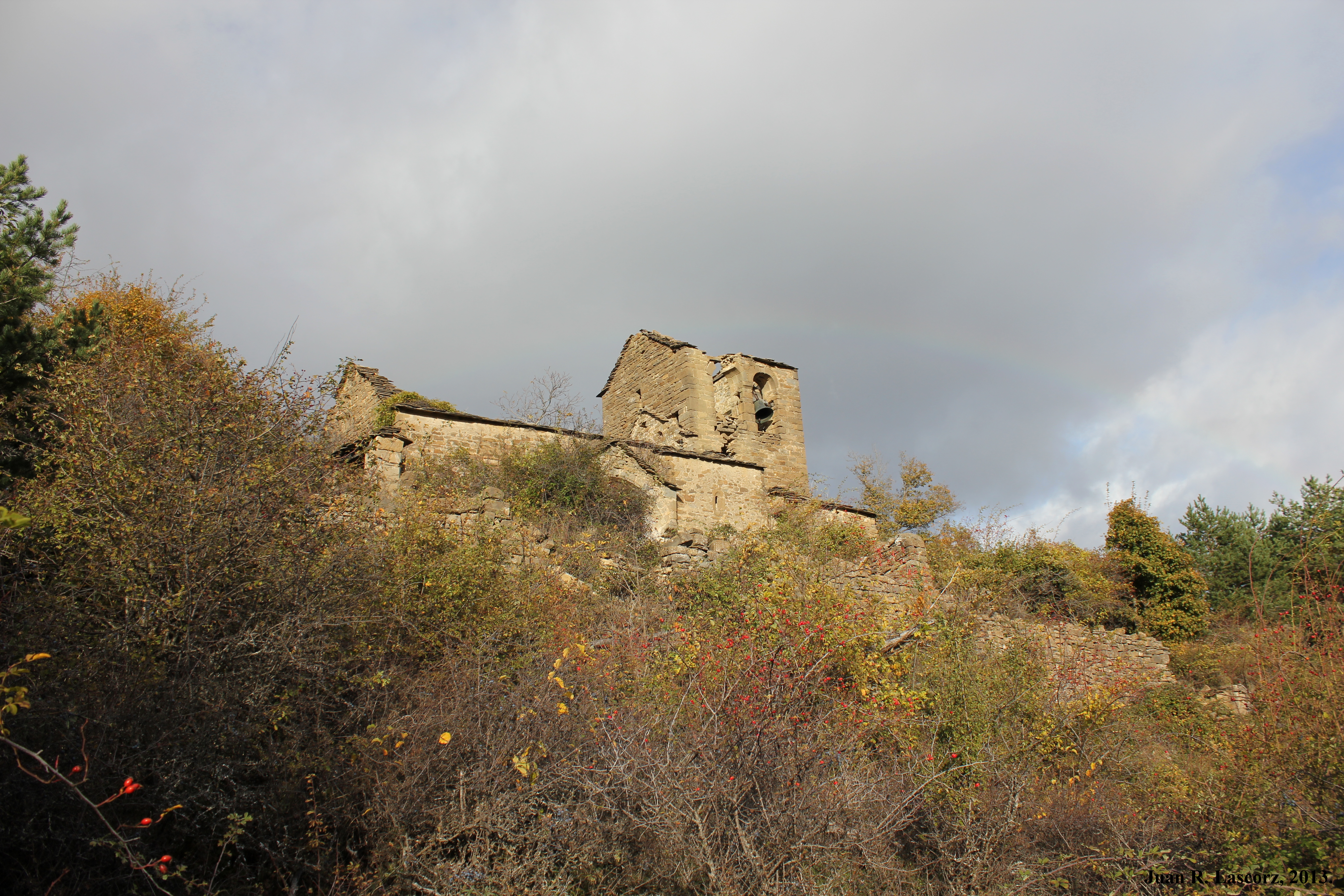 Parish church of Saint Raimund Nonnatus, 16th century, in Berroy (Aragon).